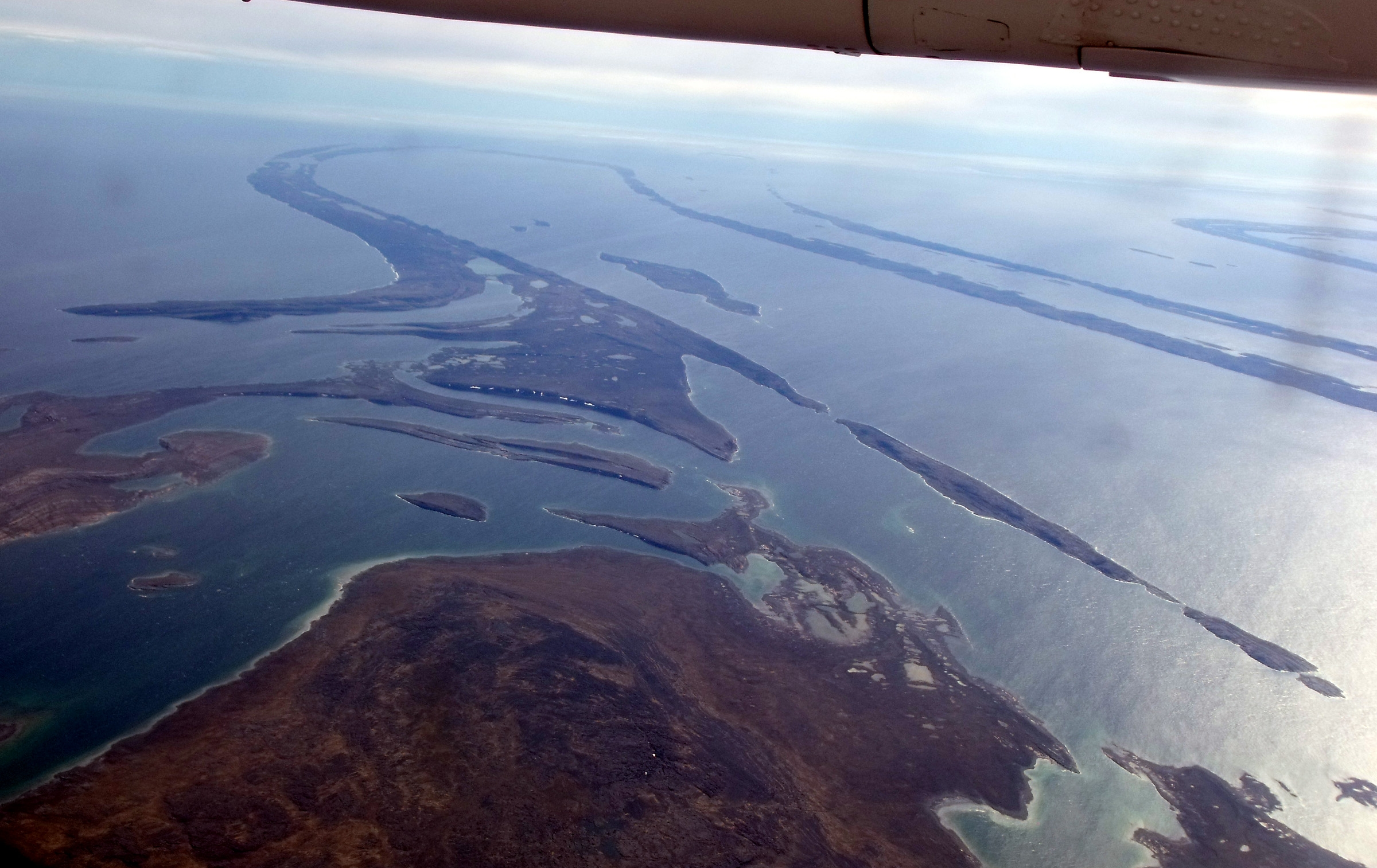 Aerial View of a planation surface/peneplain in Belcher Islands near Sanikiluaq, Hudson Bay, Canada.